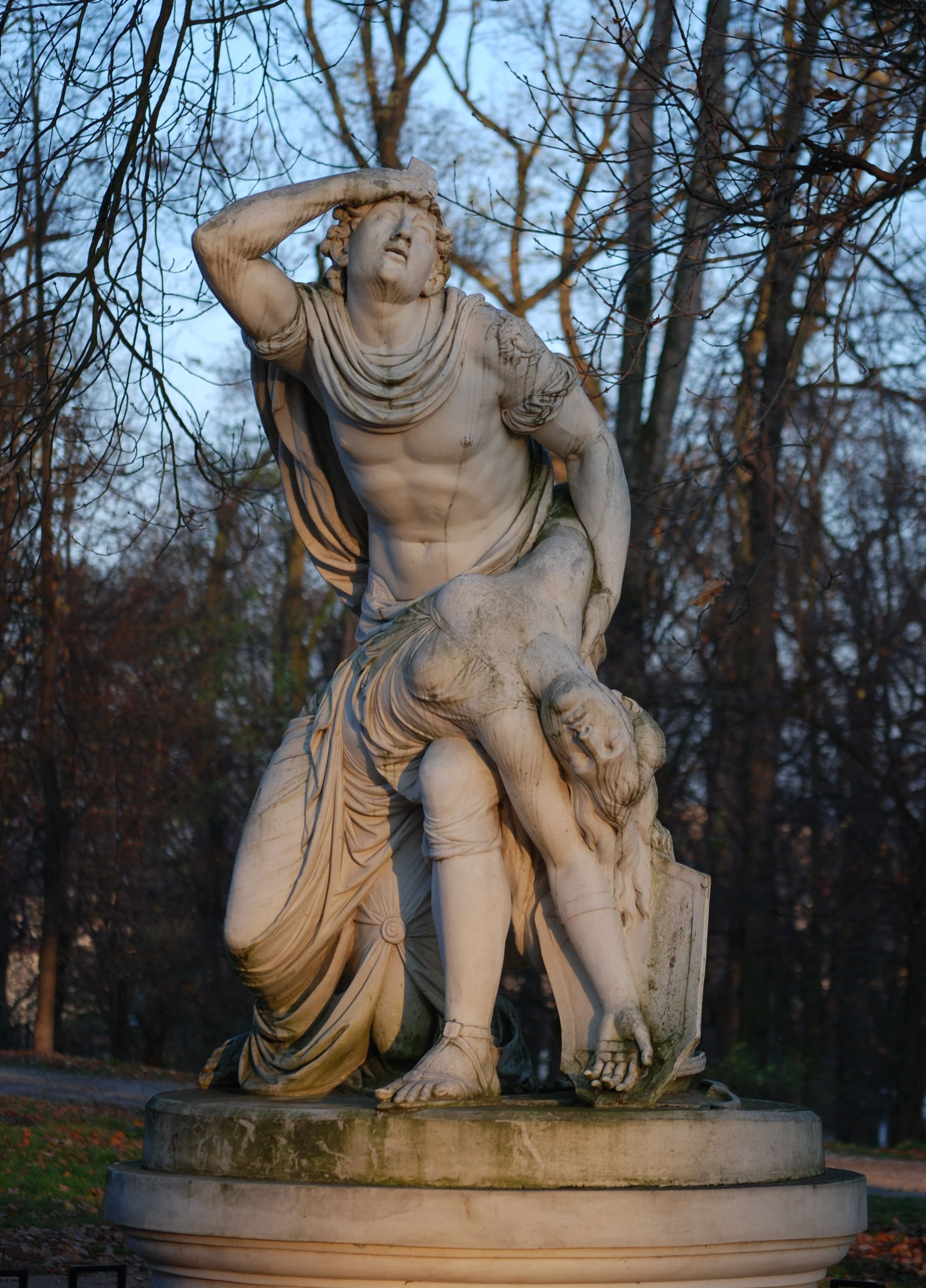 Tancred and Clorinda, a copy of the sculpture in a park of the Czartoryski Palace in Puławy, Poland